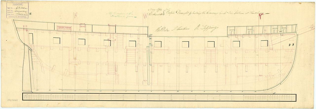 CONWAY 1814 Inboard profile plan